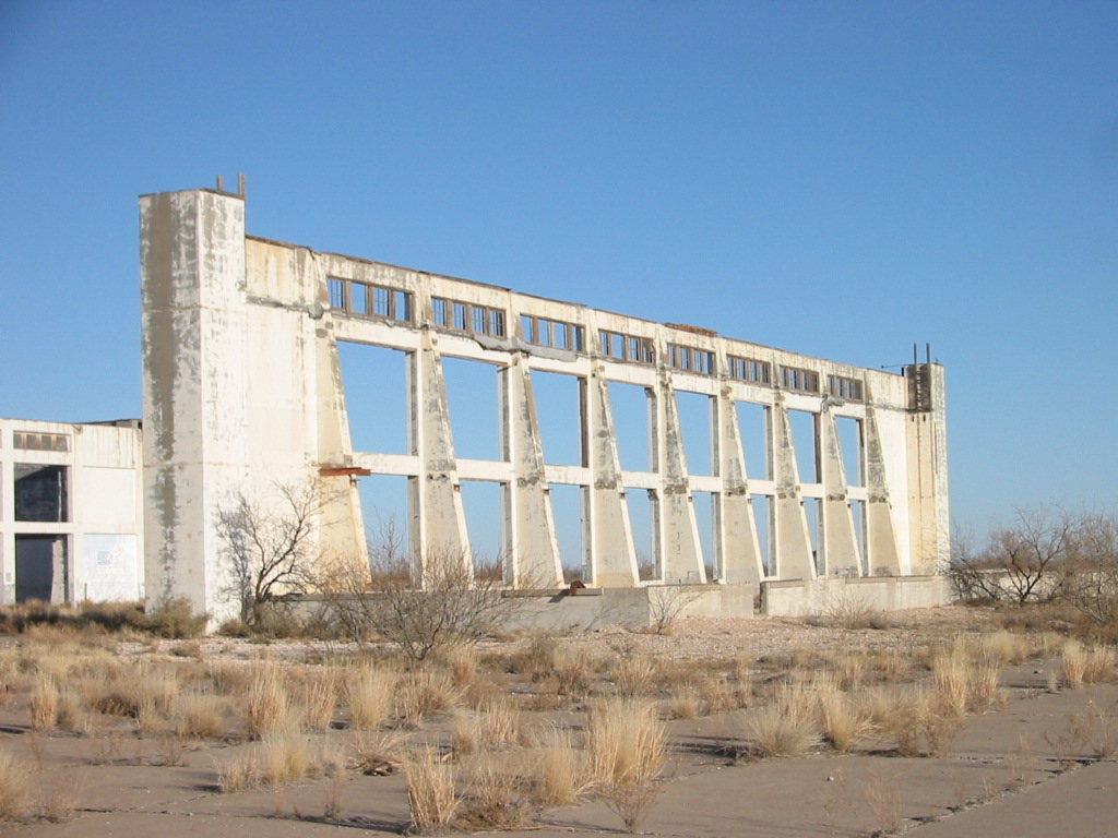 Remains of WWII era hangar at Pyote AAF.